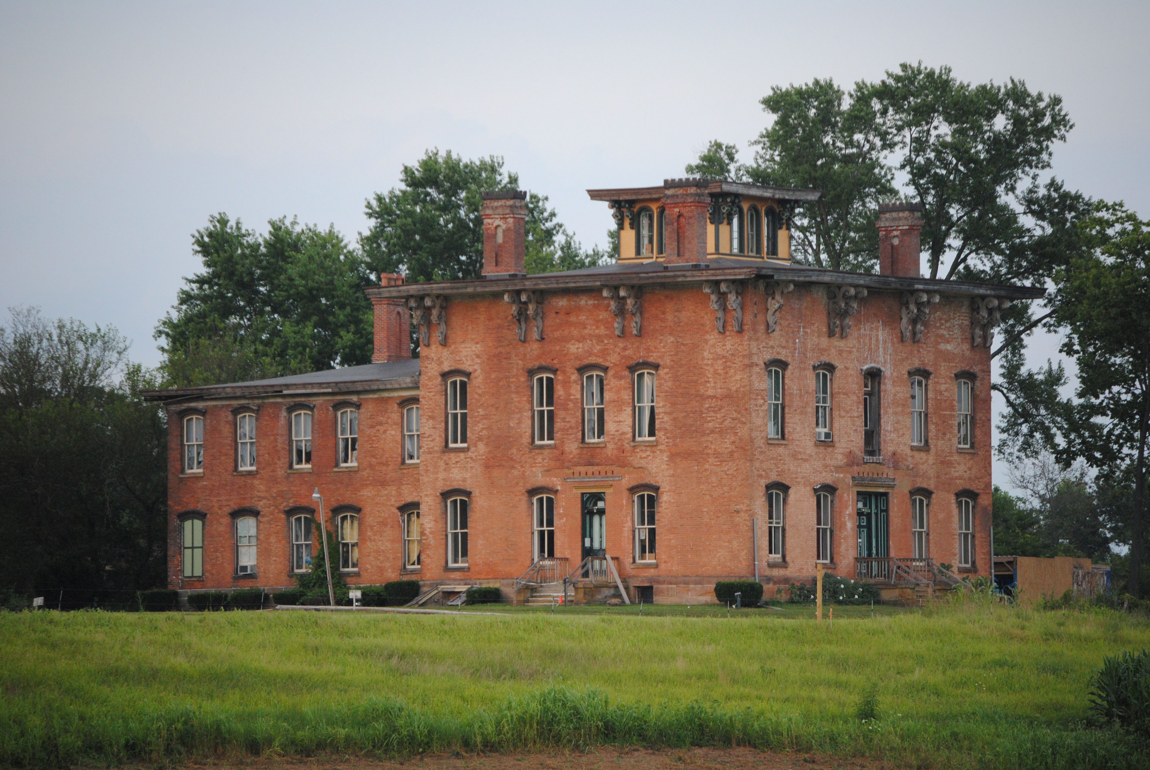 Prospect Place is a historic mansion built by G.W. Adams in Trinway Ohio. It was a stop on the underground railroad.